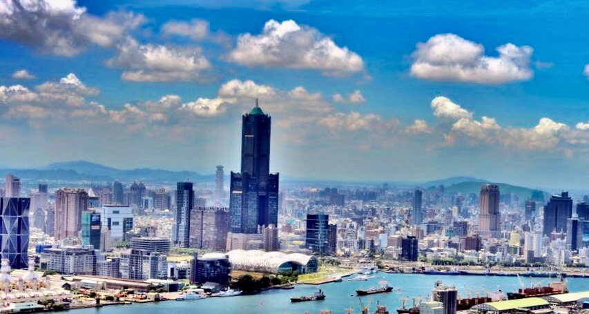 Skyline of the Asia New Bay Area in Kaohsiung, Taiwan